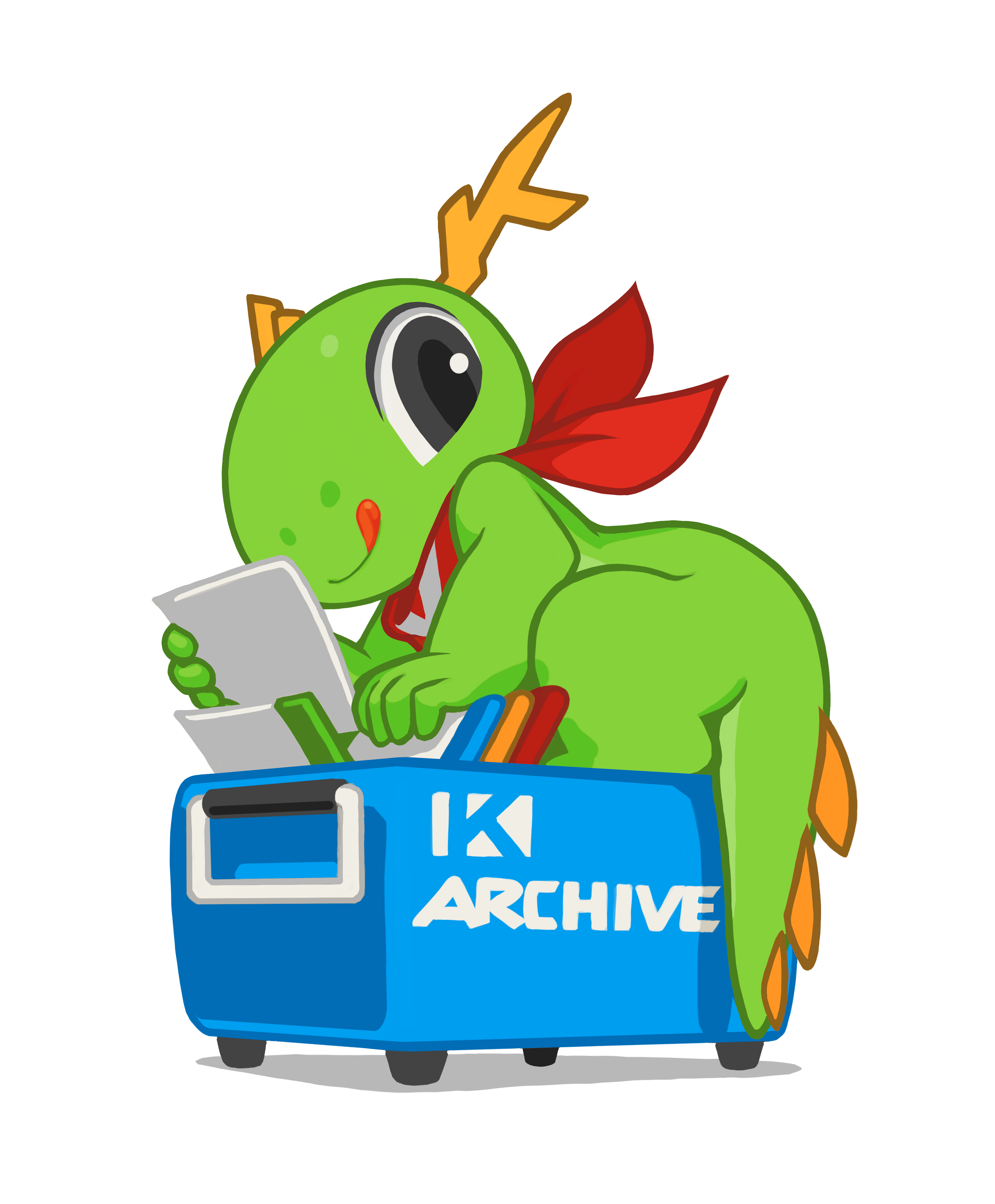 KDE mascot Konqi for search and archives.